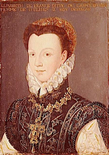 Elisabeth de Valois (1545-1568), Princess of France and Queen of Spain, daughter of King Henry II of France and Katharina de Medici, spouse of King Felipe II. of Spain, mother of Infanta Isabella Clara Eugenia and Infanta Catalina Micaela